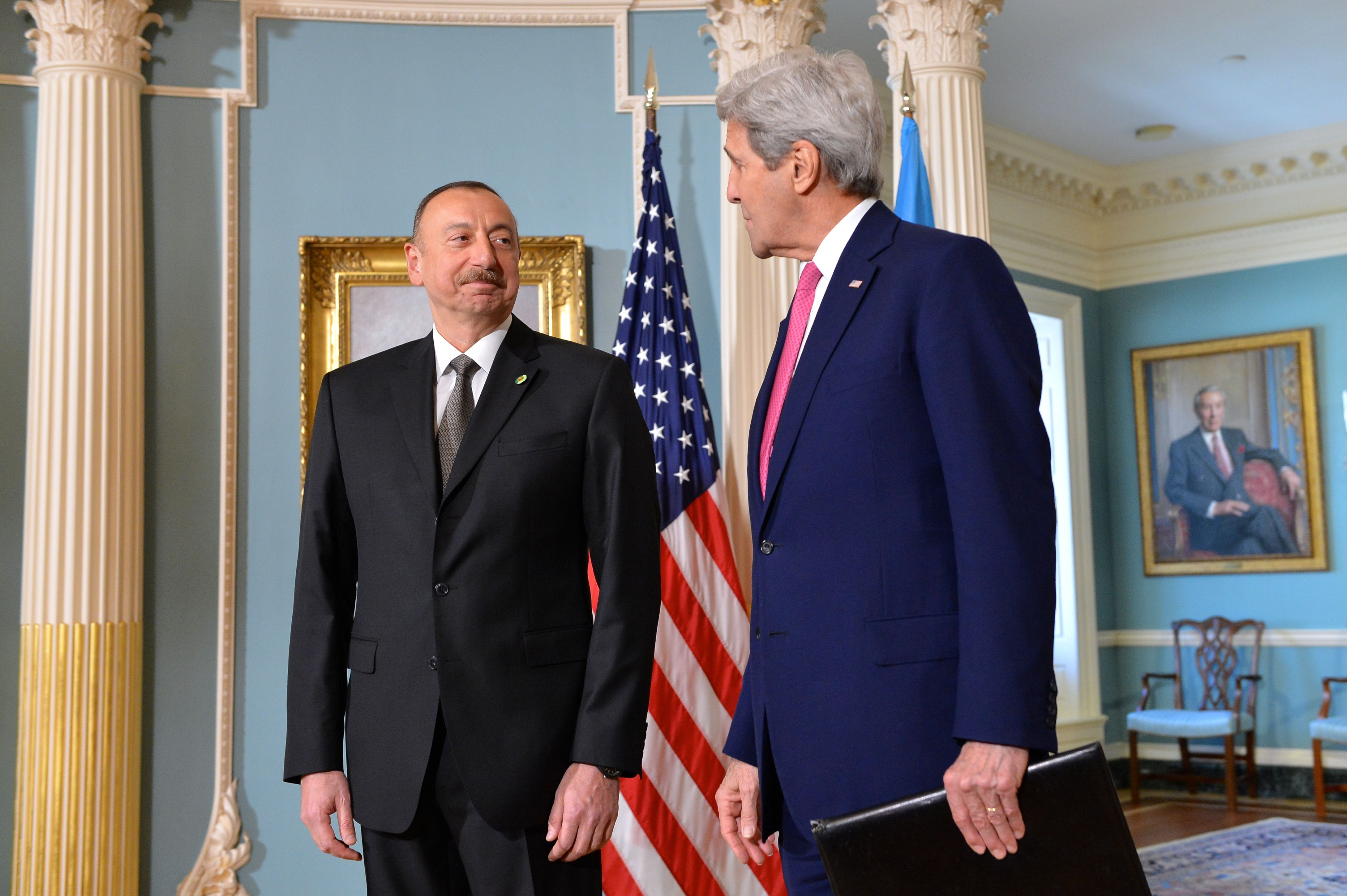 U.S. Secretary of State John Kerry and Azerbaijani President Ilham Aliyev address reporters before their bilateral meeting at the U.S. Department of State in Washington, D.C., on March 30, 2016. [State Department photo/ Public Domain]